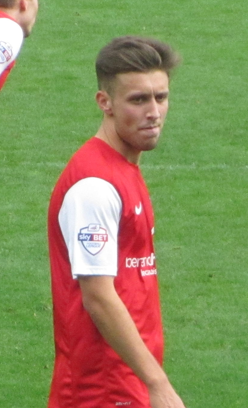 Luke O'Neill playing for York City against Fleetwood Town at Bootham Crescent, York on 26 October 2013